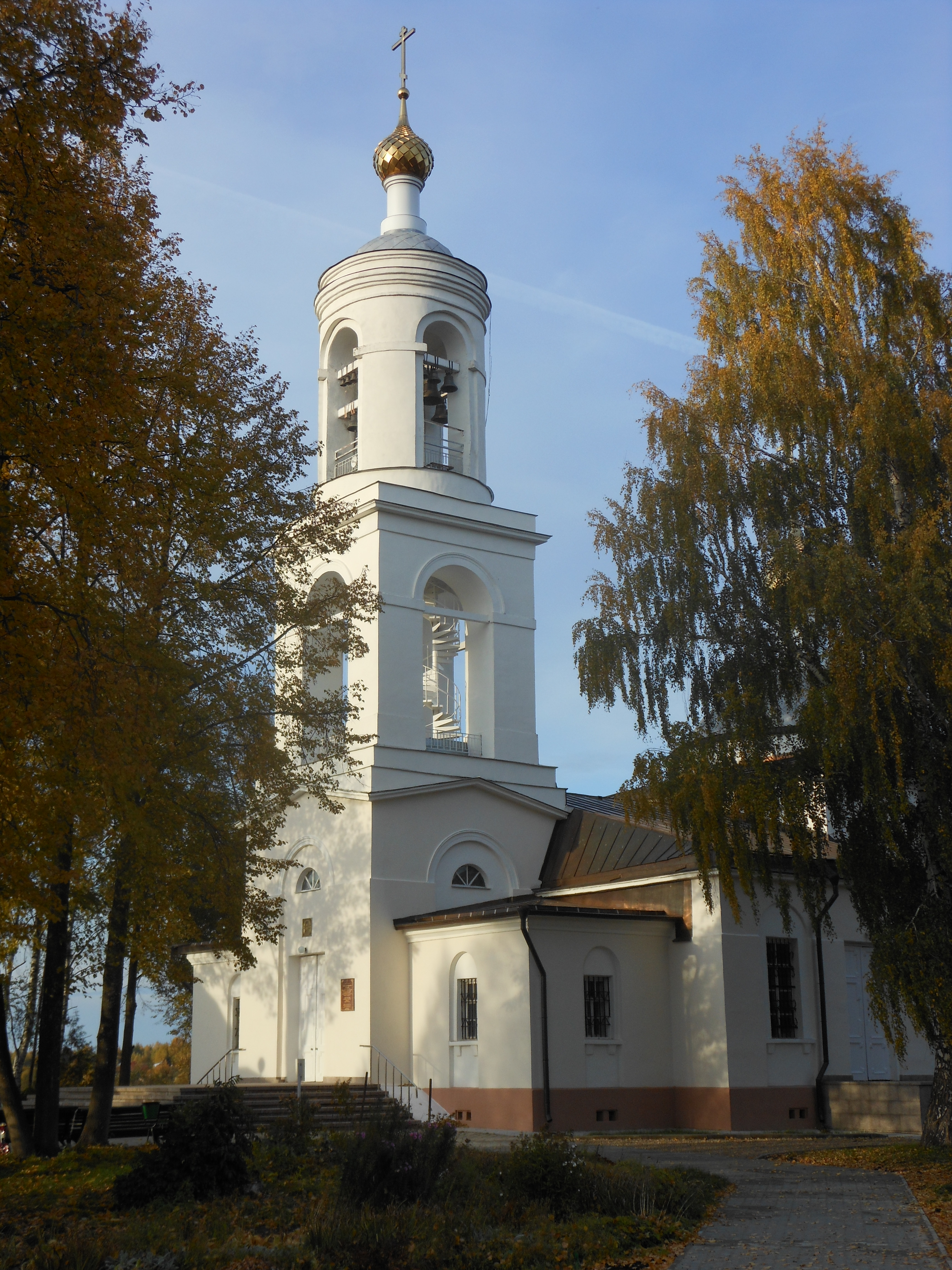 Church at Ratmino, Dubna, Moscow oblast